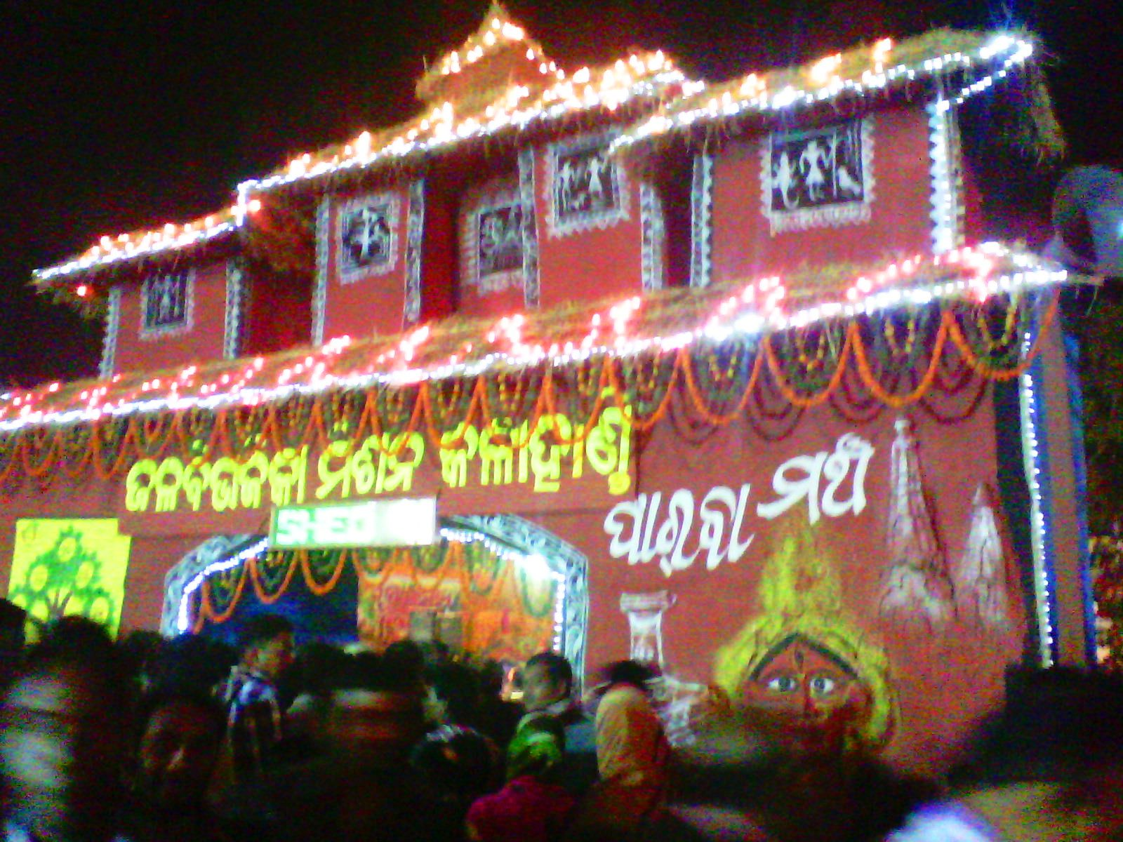 Kalahandi Utsav